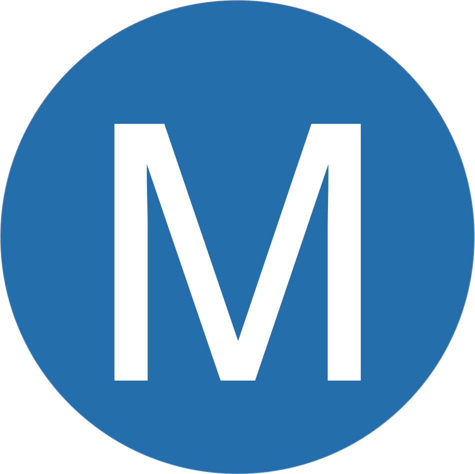 The standard icon of the Baltimore Metro Subway system. This icon appears on the identification pillars as well as directional signage.